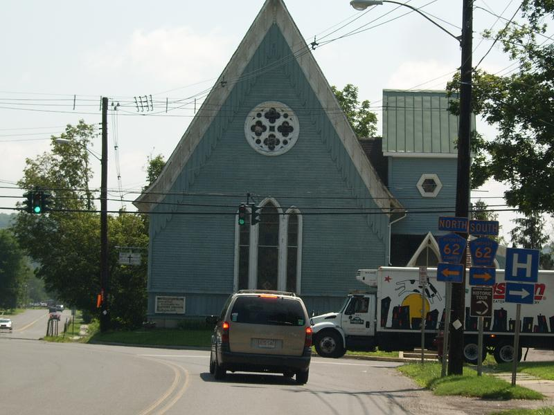 Junction with Dutchess County Route 62 in Millerton, NY